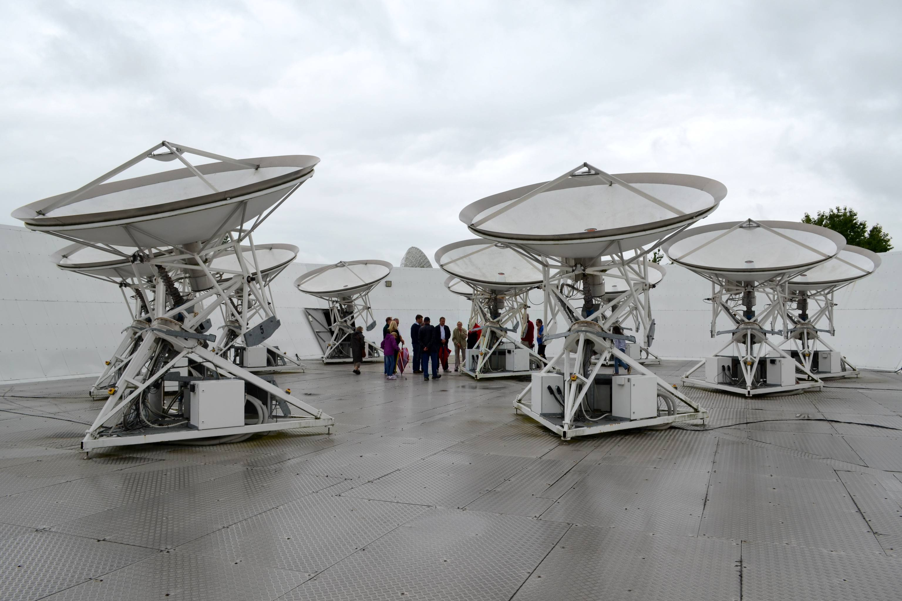 The Arcminute Microkelvin Imager Small Array at the Mullard Radio Astronomy Observatory, Cambridgeshire in June 2014.